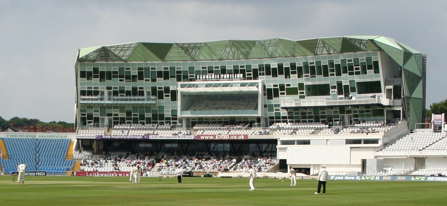 View of Carnegie Pavilion, Headingley, Leeds during the County Championship match between Yorkshire and Surrey on 21 June, 2013.